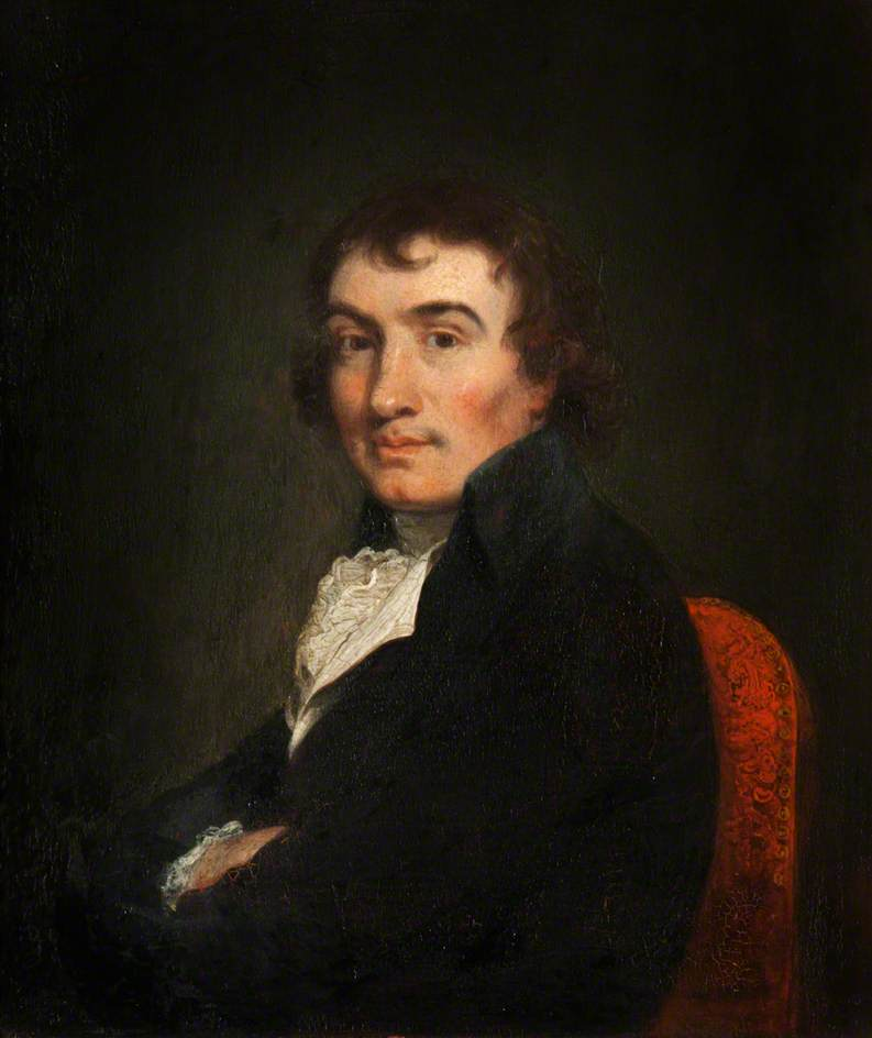 Portrait of Alexander Abercromby (1784–1853), British Army officer.